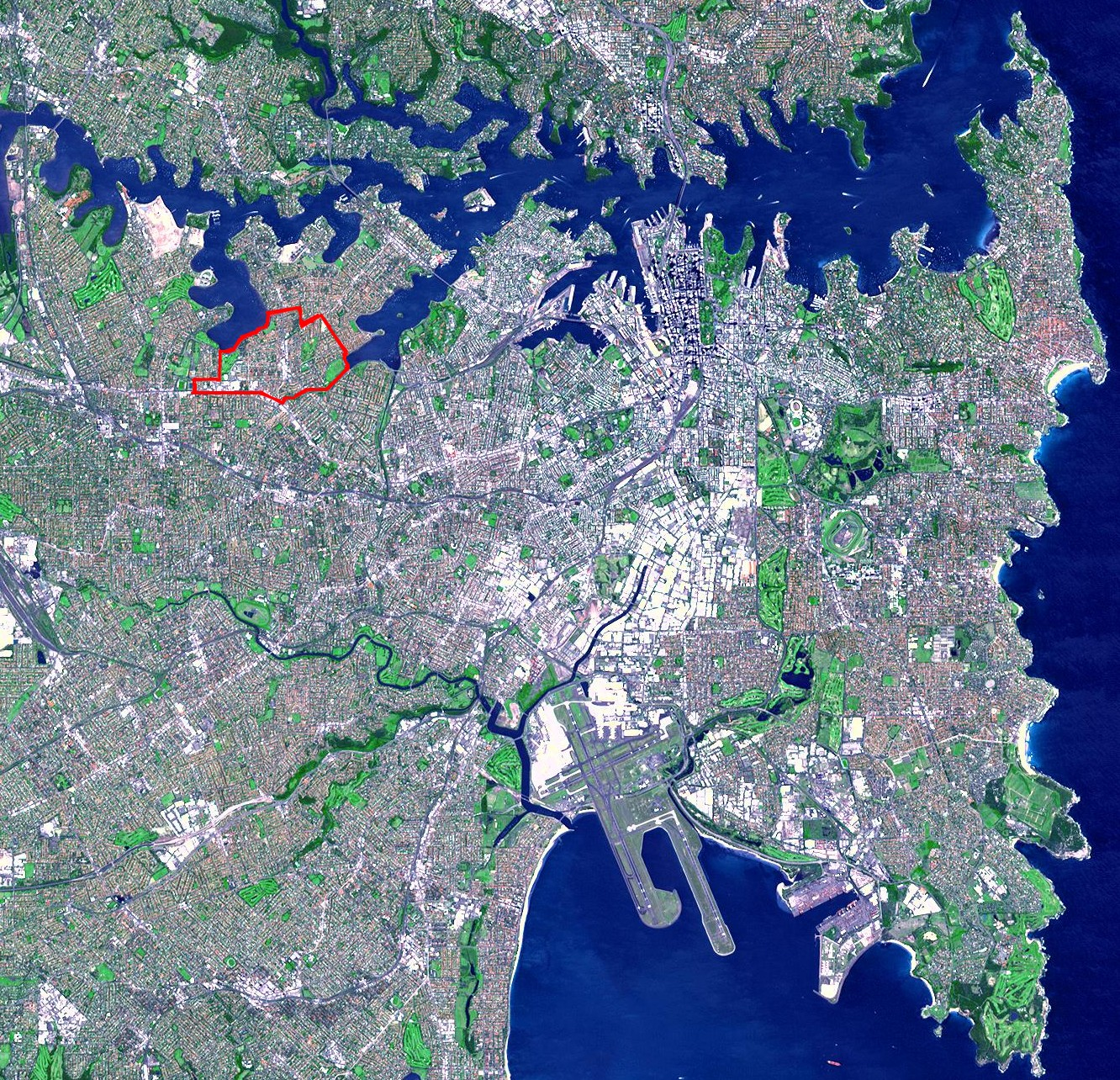 NASA satellite image of Sydney, Australia, cropped and modified to show borders of Five Dock; Original NASA image number: PIA03498